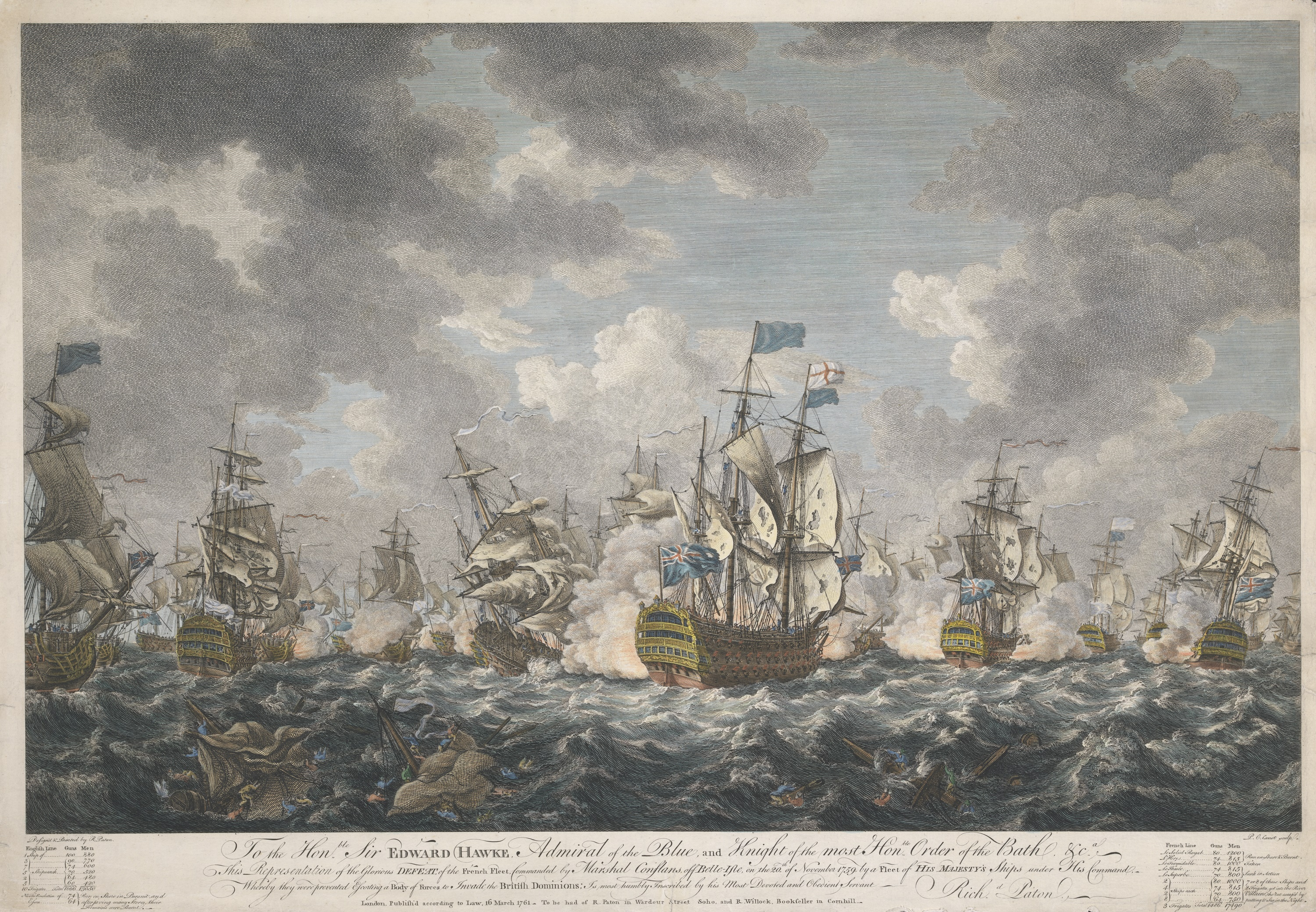 Battle of Quiberon Bay